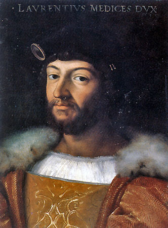 Portrait of Lorenzo II, Duke of Urbino (1492-1519), copied from a portrait by Raphael